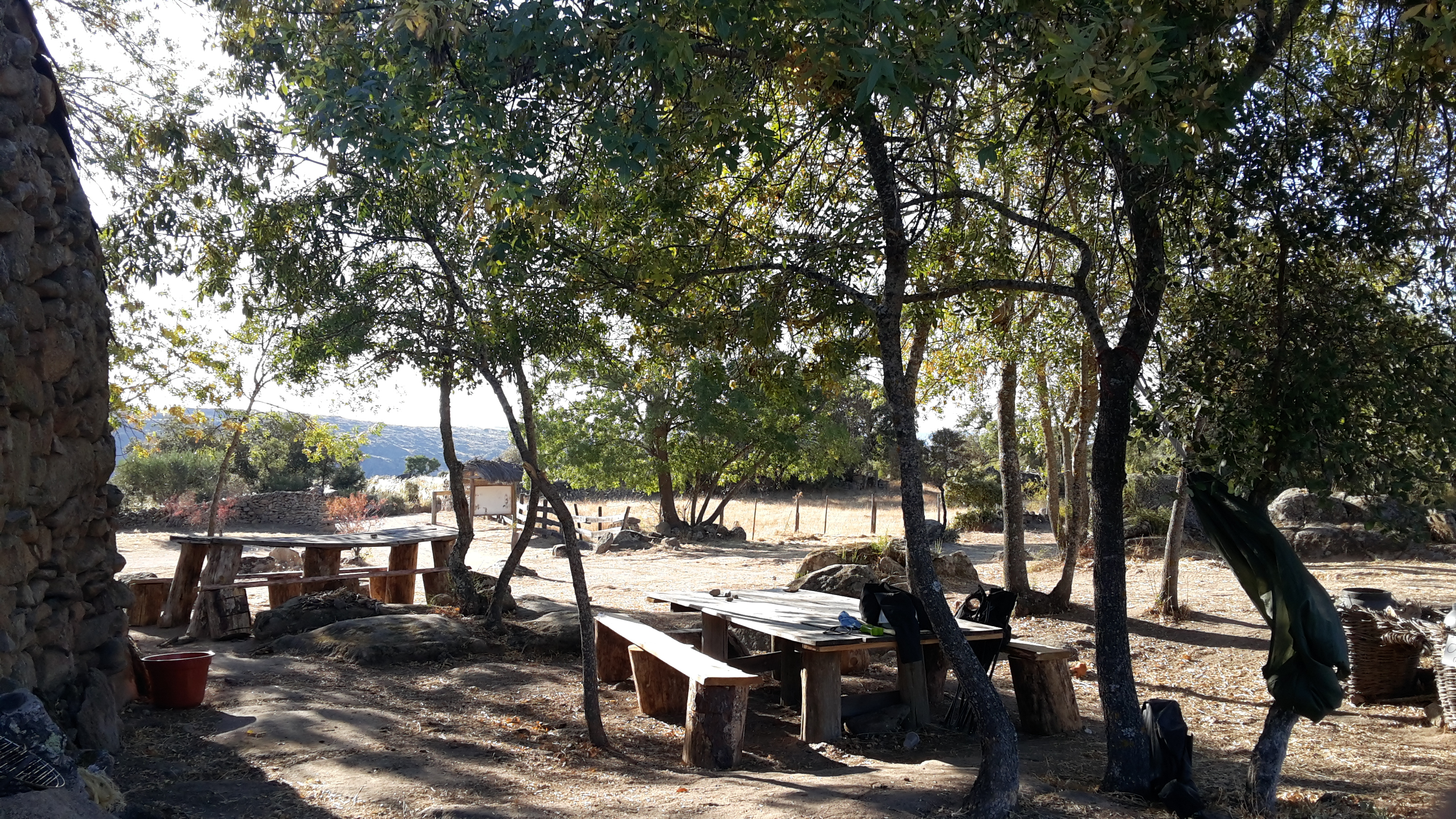 the surroundings of the visitors house in Faia Brava